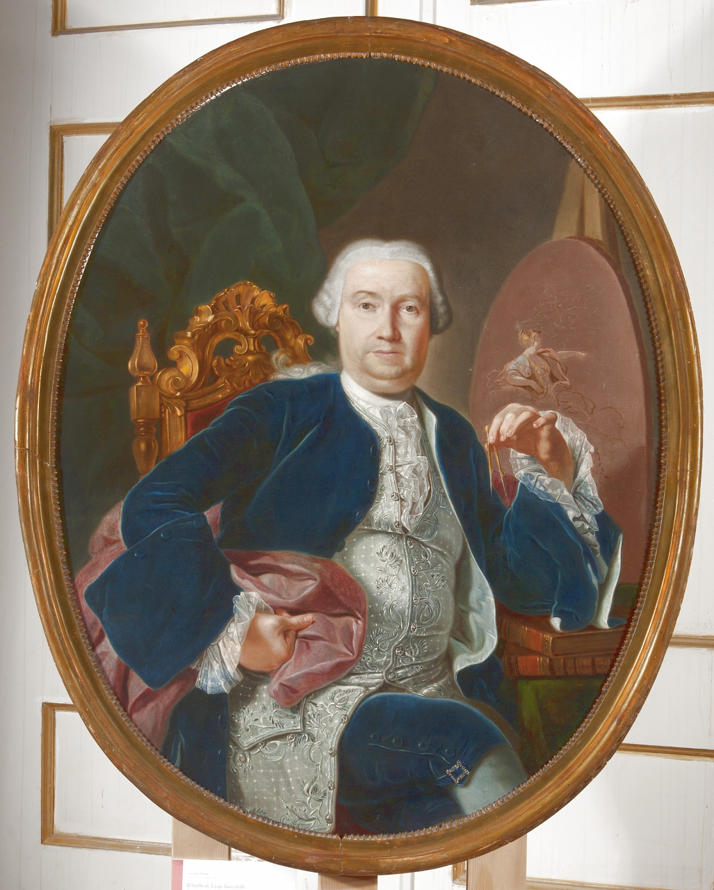 Portrait of the famous architect Luigi Vanvitelli (1700-1773)